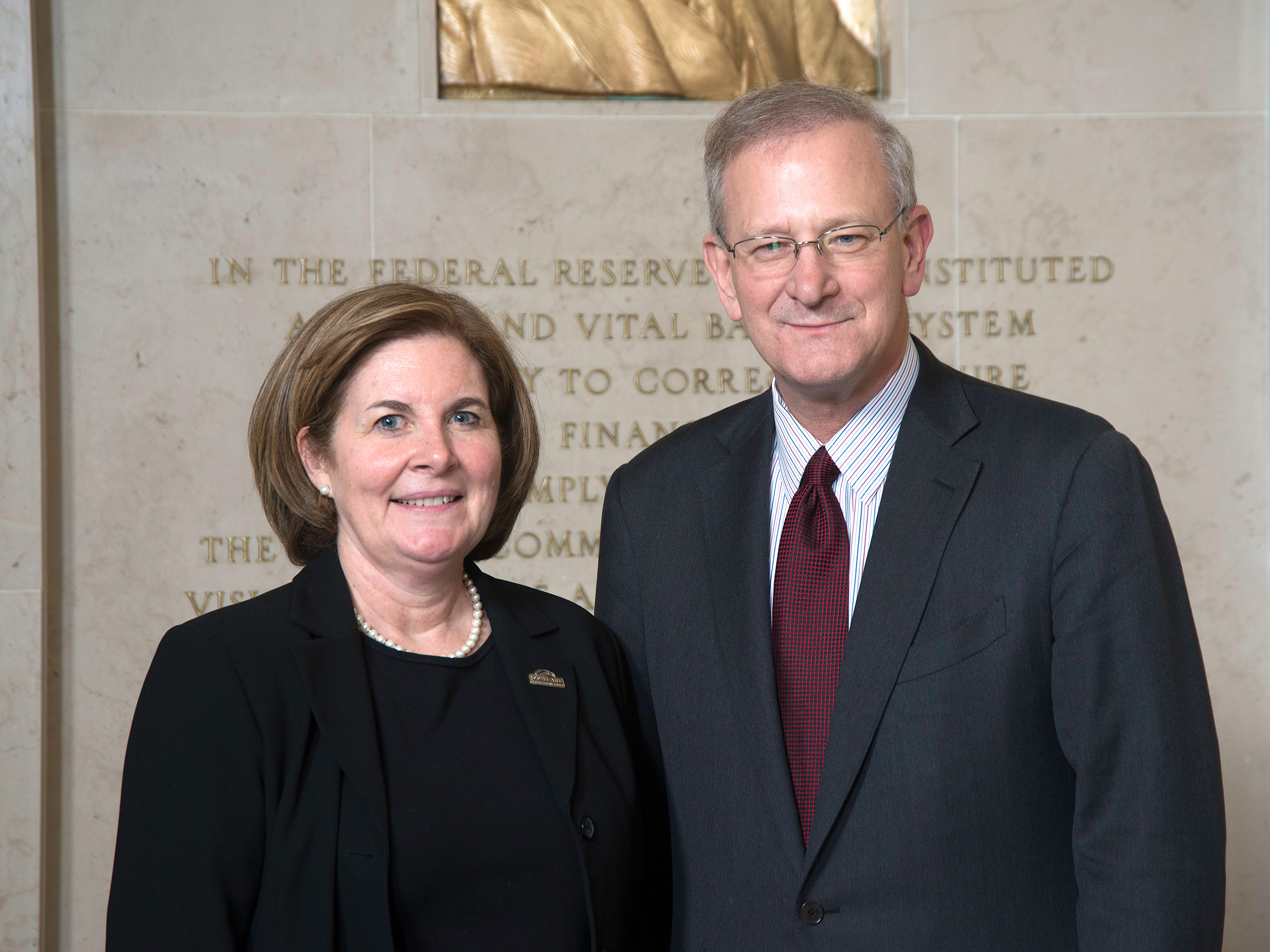 Current and Former FRB Kansas City Presidents (Esther L. George and Thomas M. Hoenig)